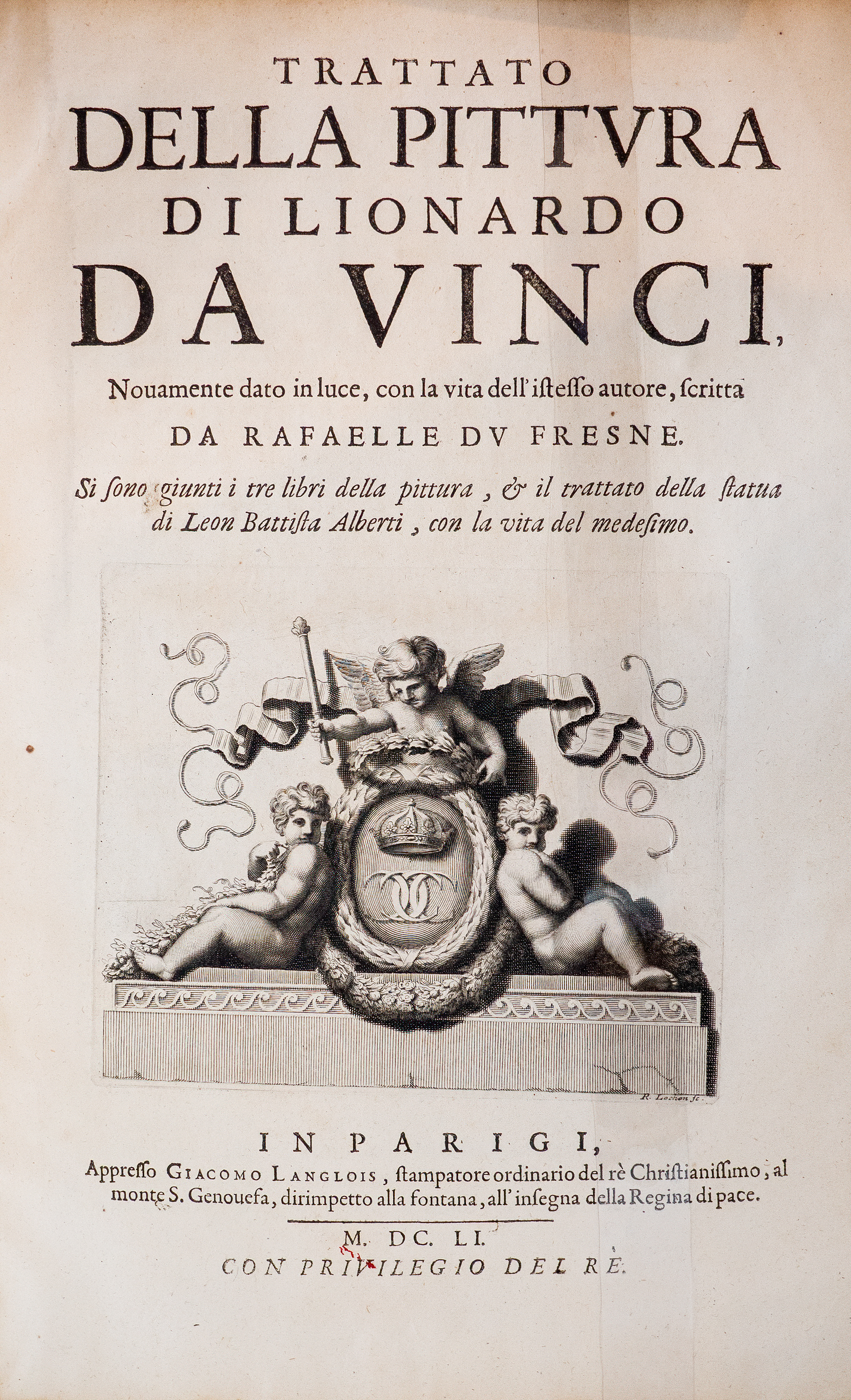 Trattato Della Pittura (A Treatise on Painting by Leonardo da Vinci by New York Antiquarian Book Fair in 2020